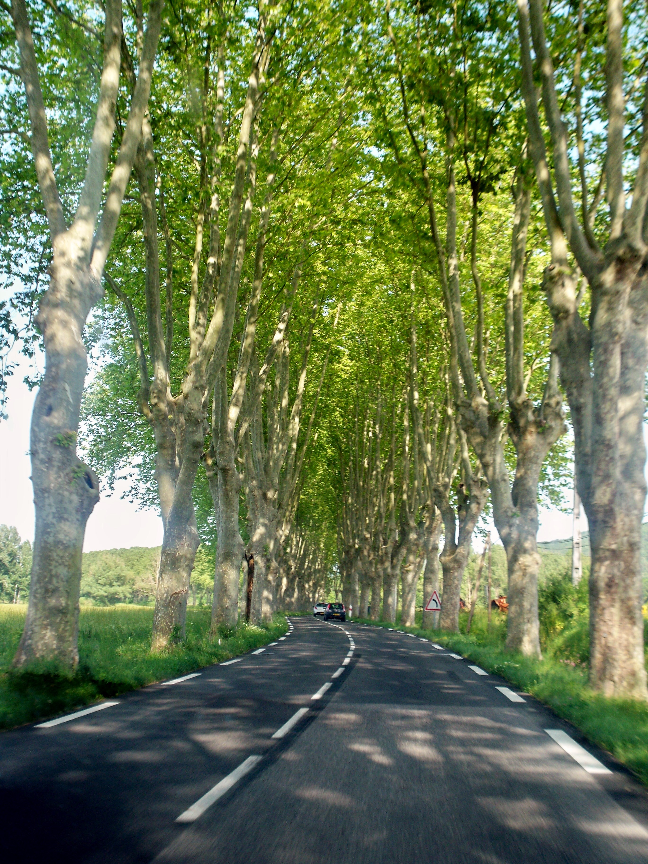 Typical tree-lined road in the Provence countryside. Taken in the department of Vaucluse near Apt.